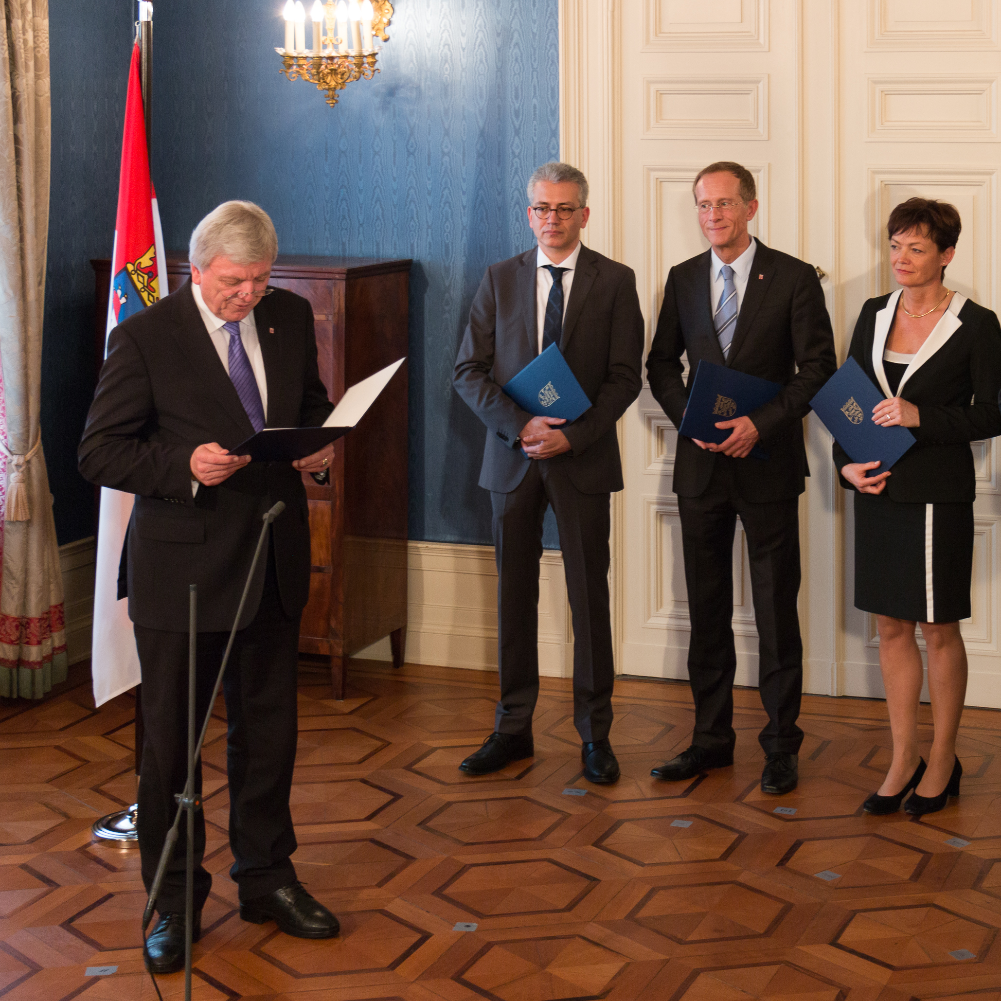 Minister-president Volker Bouffier appoints the Ministers of his second cabinet